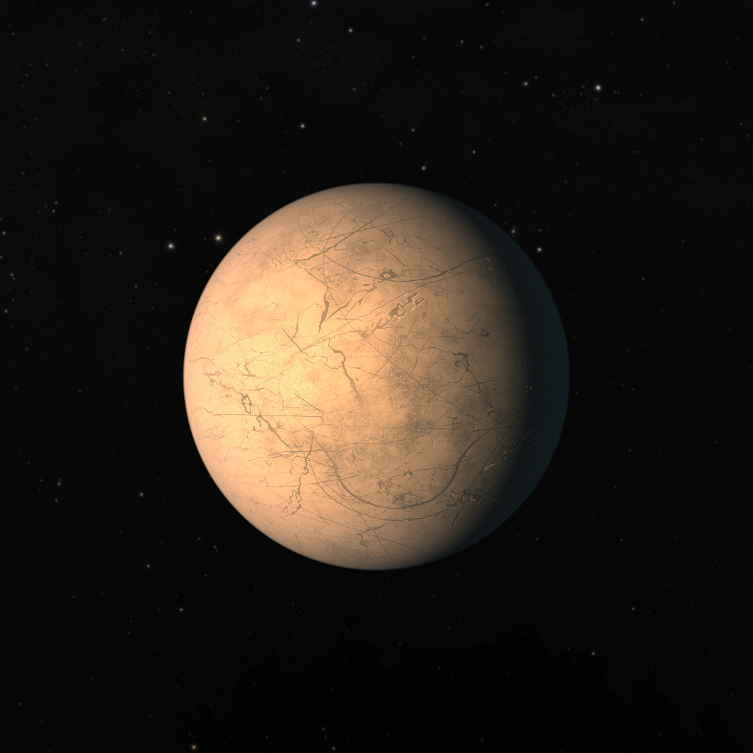 Artist's impression of the exoplanet TRAPPIST-1g, located in the Aquarius system of TRAPPIST-1. Originally created for NASA as part of their announcement of discoveries in the TRAPPIST-1 system on 22 February 2017. According to NASA, as the furthest planet from the star, it is depicted as "covered in ice, similar to Jupiter's icy moon Europa." Screenshotted and cropped from File:PIA21468 - TRAPPIST-1 Planets - Flyaround Animation.ogg.